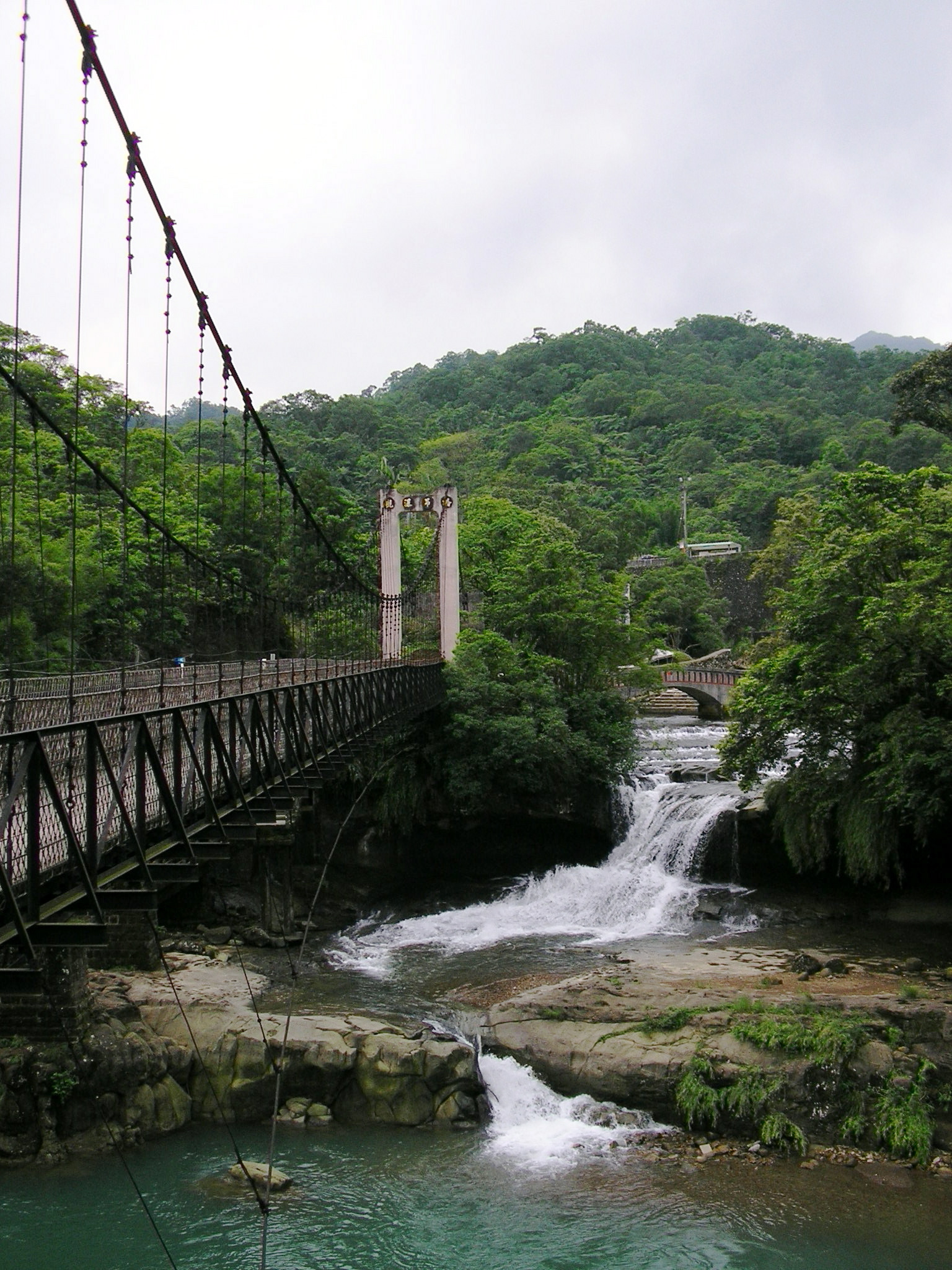 Guanpu Suspension Bridge near the source of the Keelung River in Pingsi Township, Taipei County.中文（台灣）: 橫跨基隆河的臺北縣平溪鄉觀瀑吊橋。